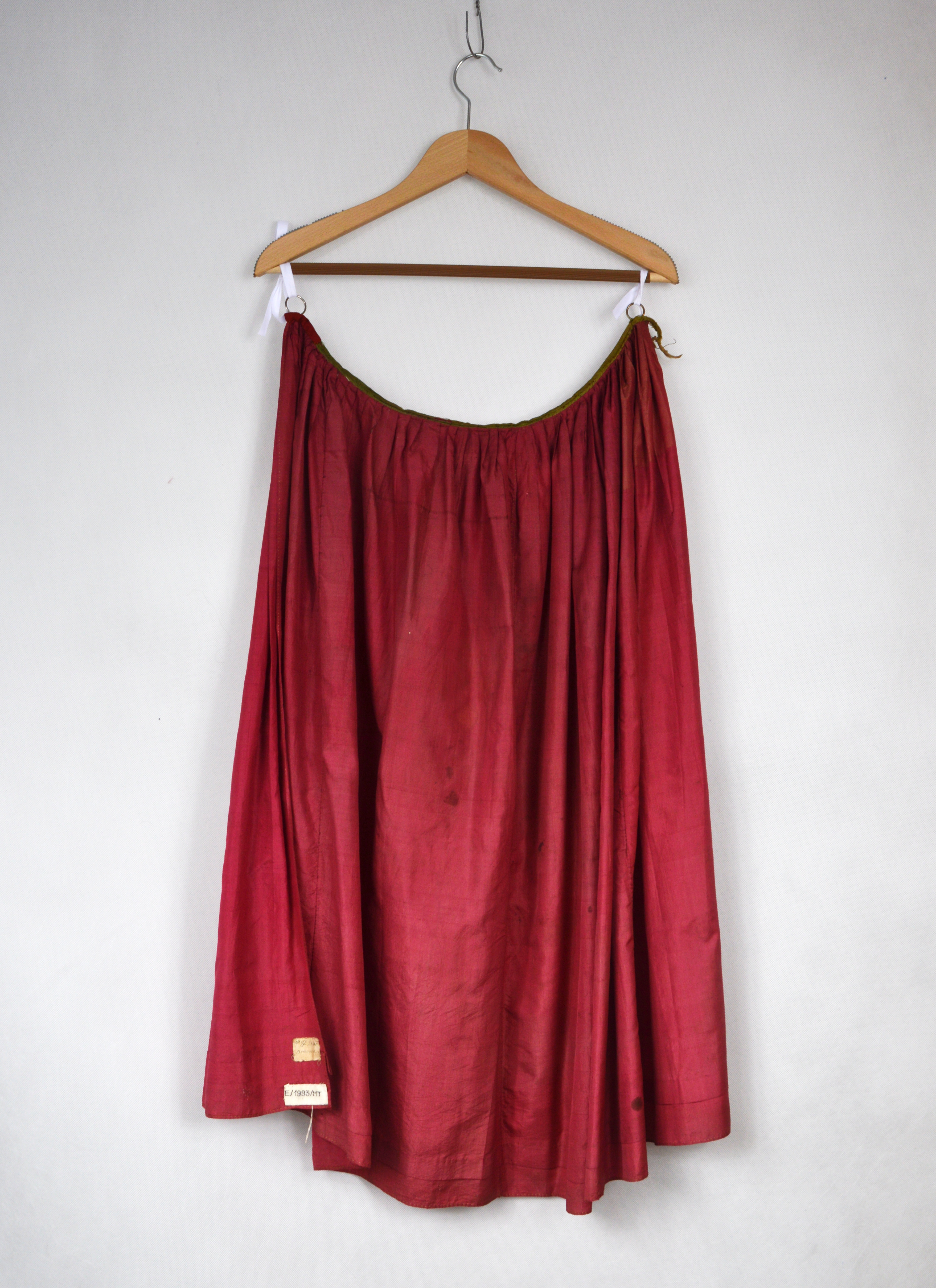 Apron, early XIXth century, Podhale